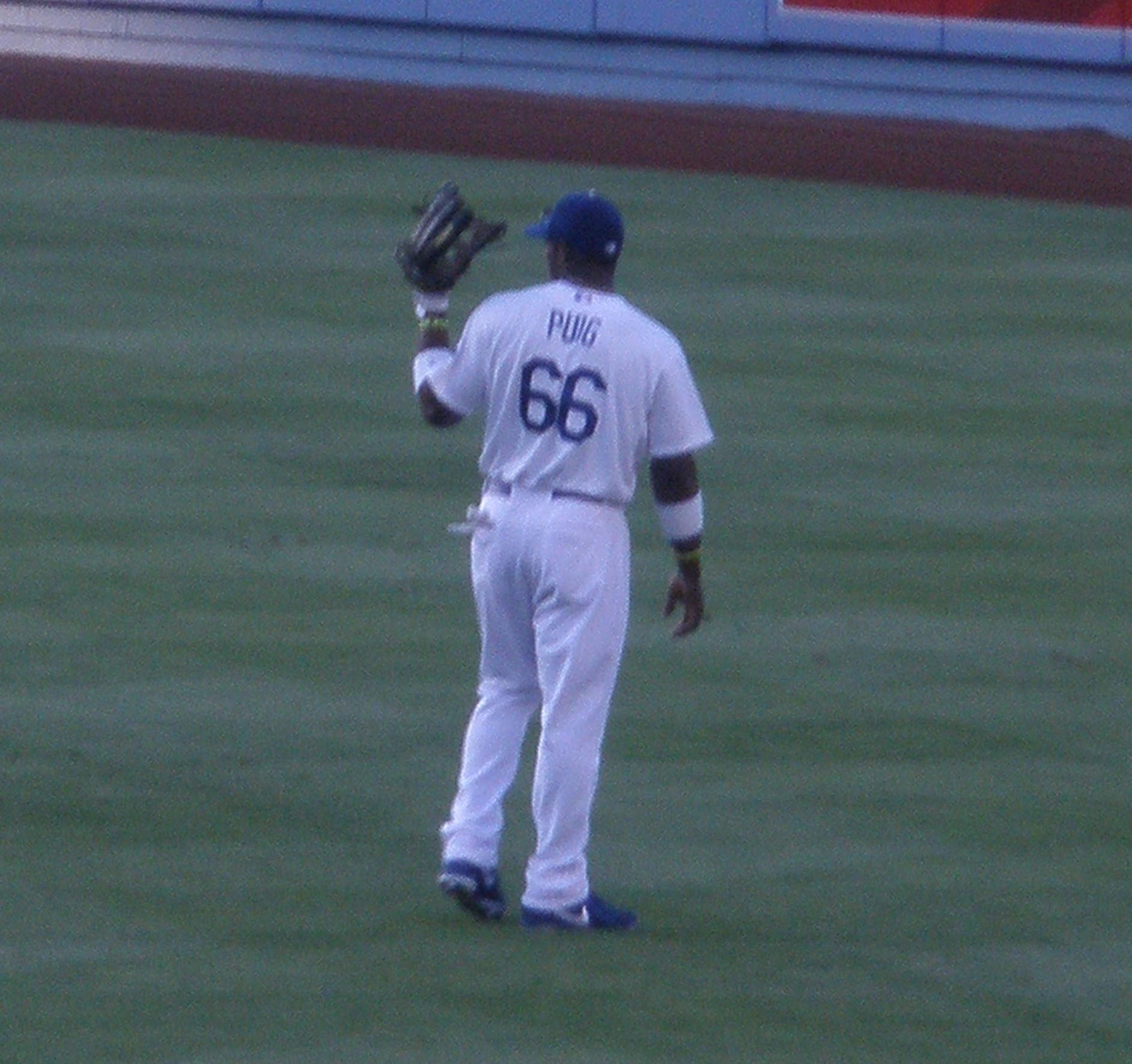 Yasiel Puig in the Dodger Stadium outfield